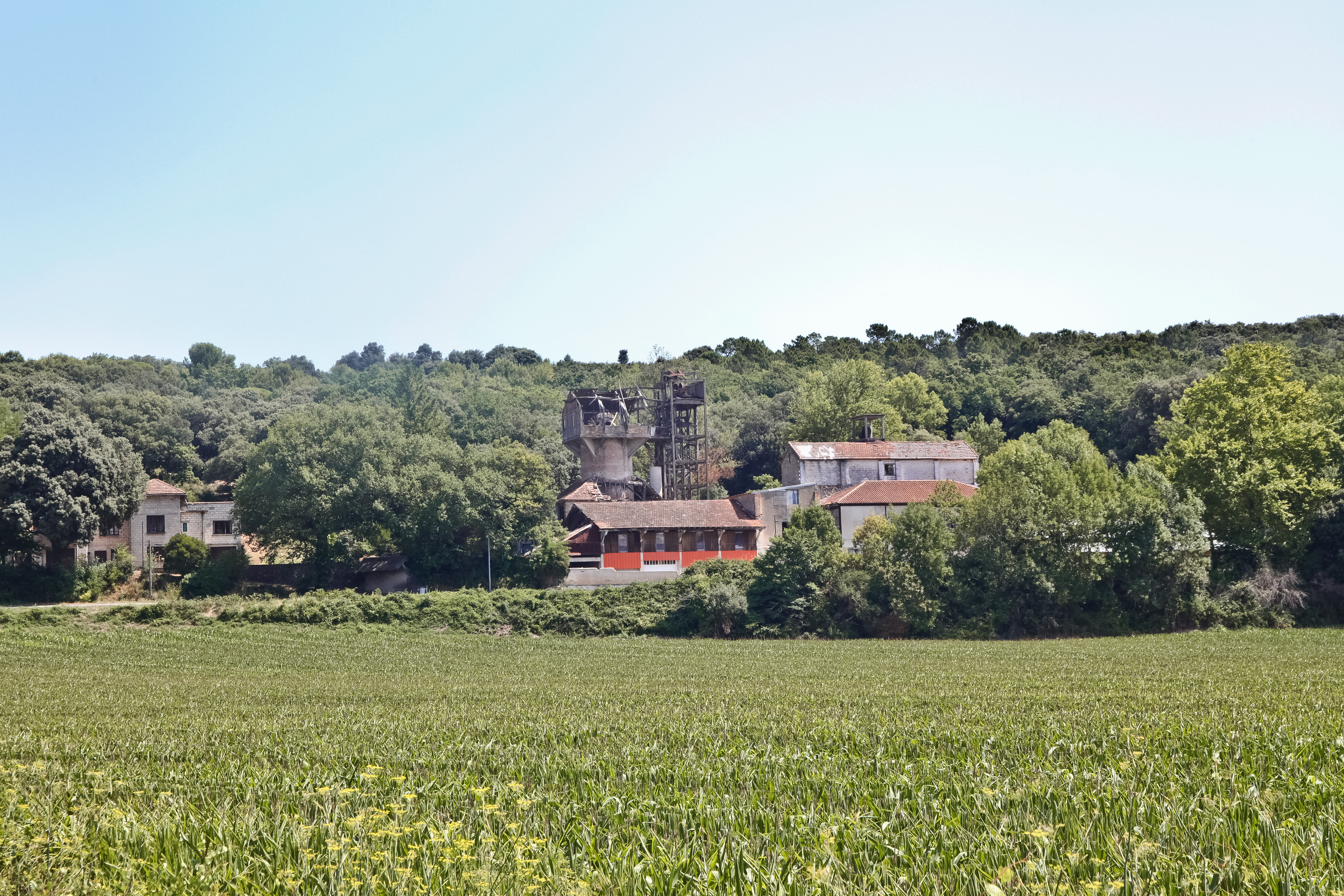 Cenne-Monestiés village, an old factory of products for agriculture